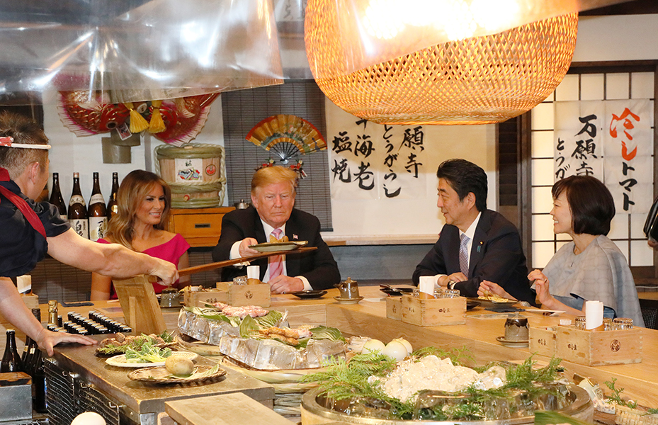 On May 26, the Prime Minister and Mrs. Abe invited the US President Donald J. Trump and his wife for dinner.